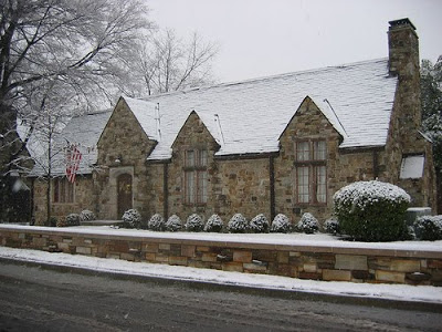 Kappa Sigma House